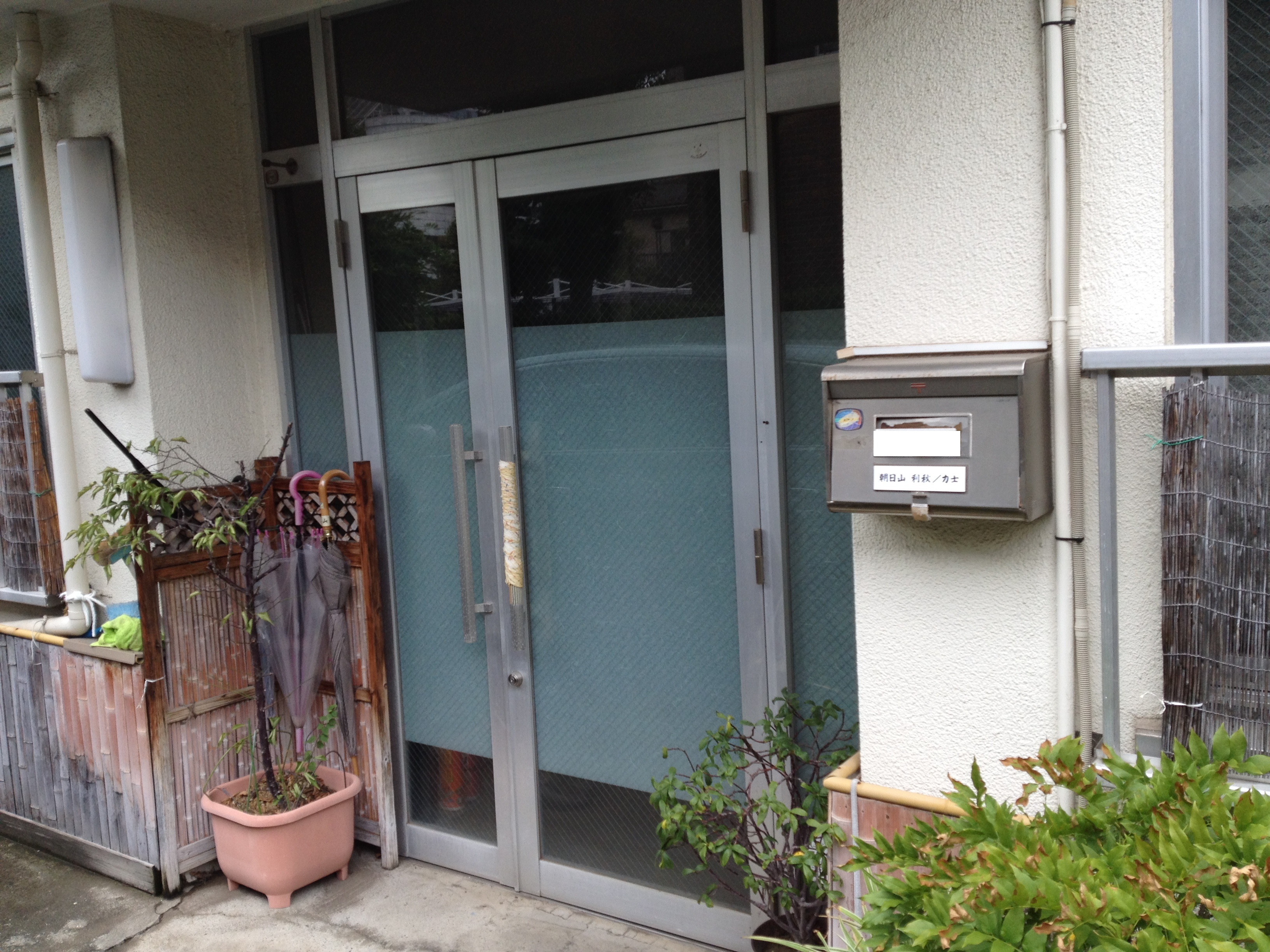 Front door of stable